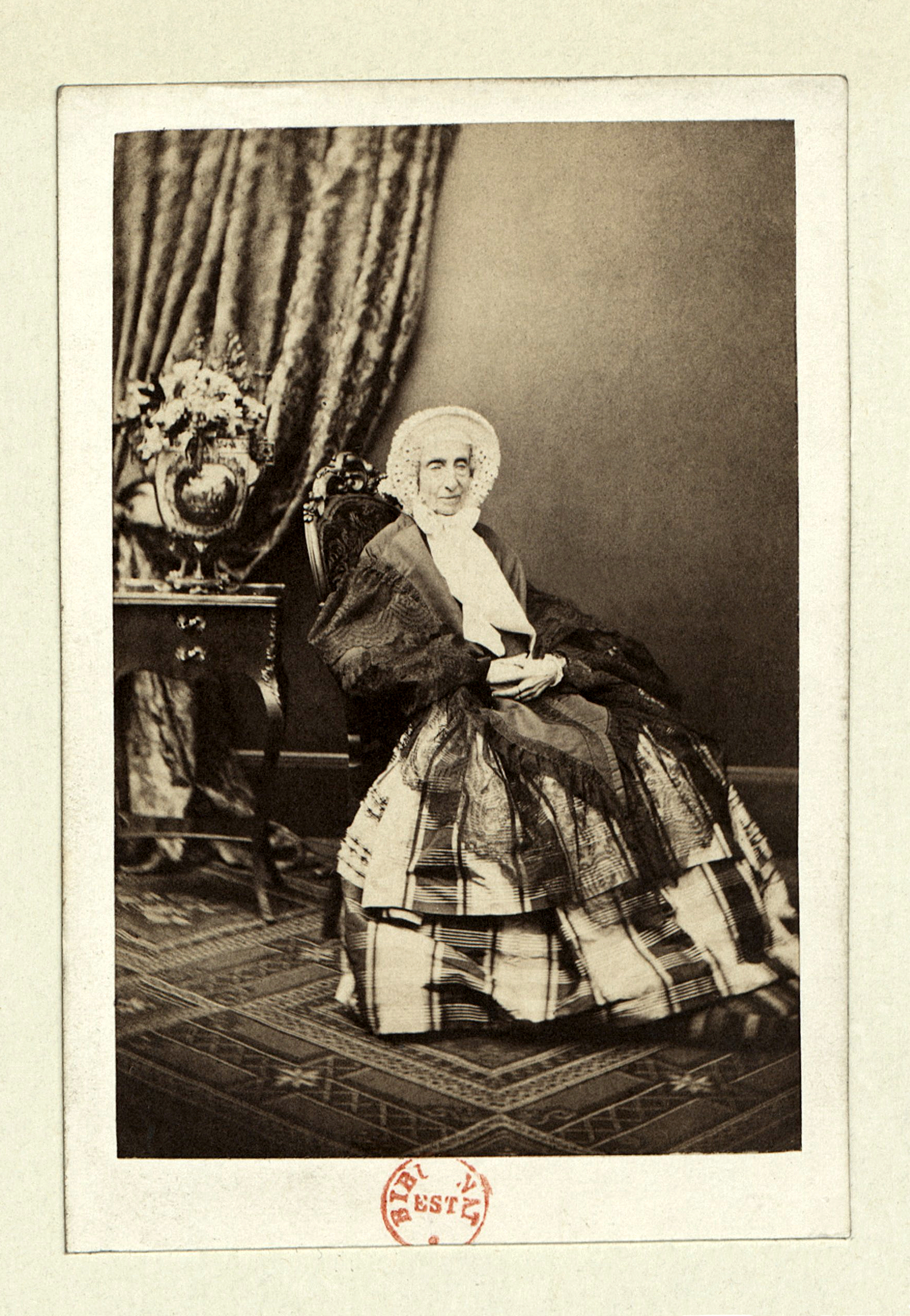 Marie-Amélie de Bourbon-Siciles (1782-1866), Queen of the French.